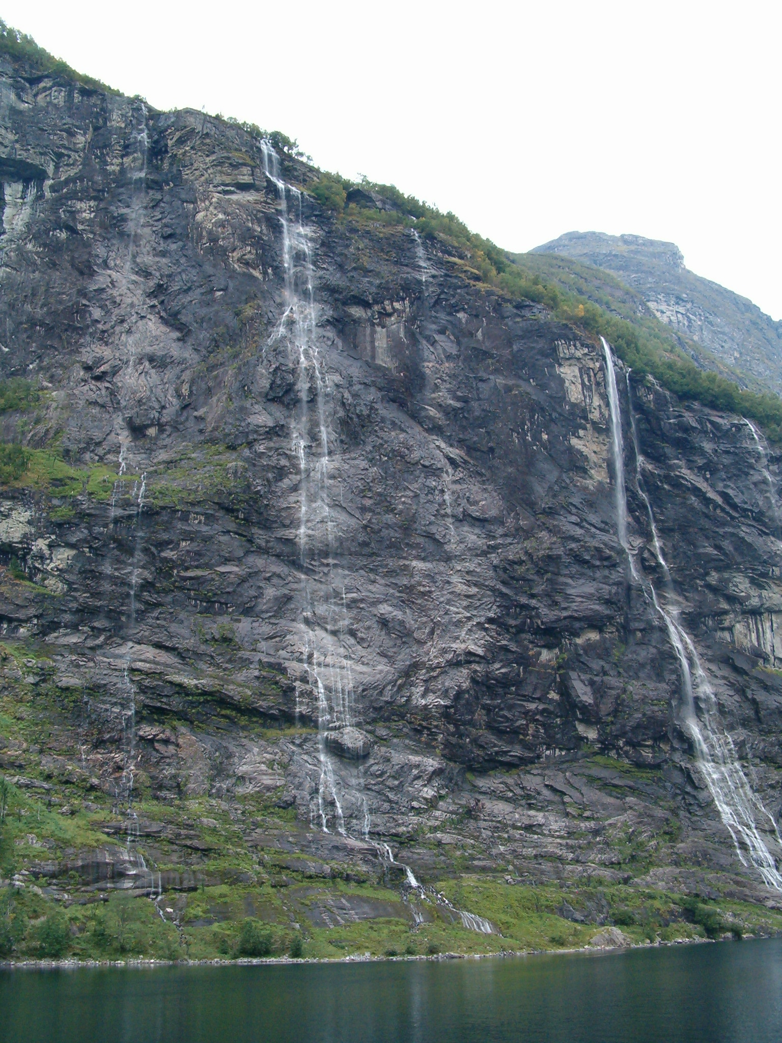 Seven Sisters Waterfall in Geirangerfjord.